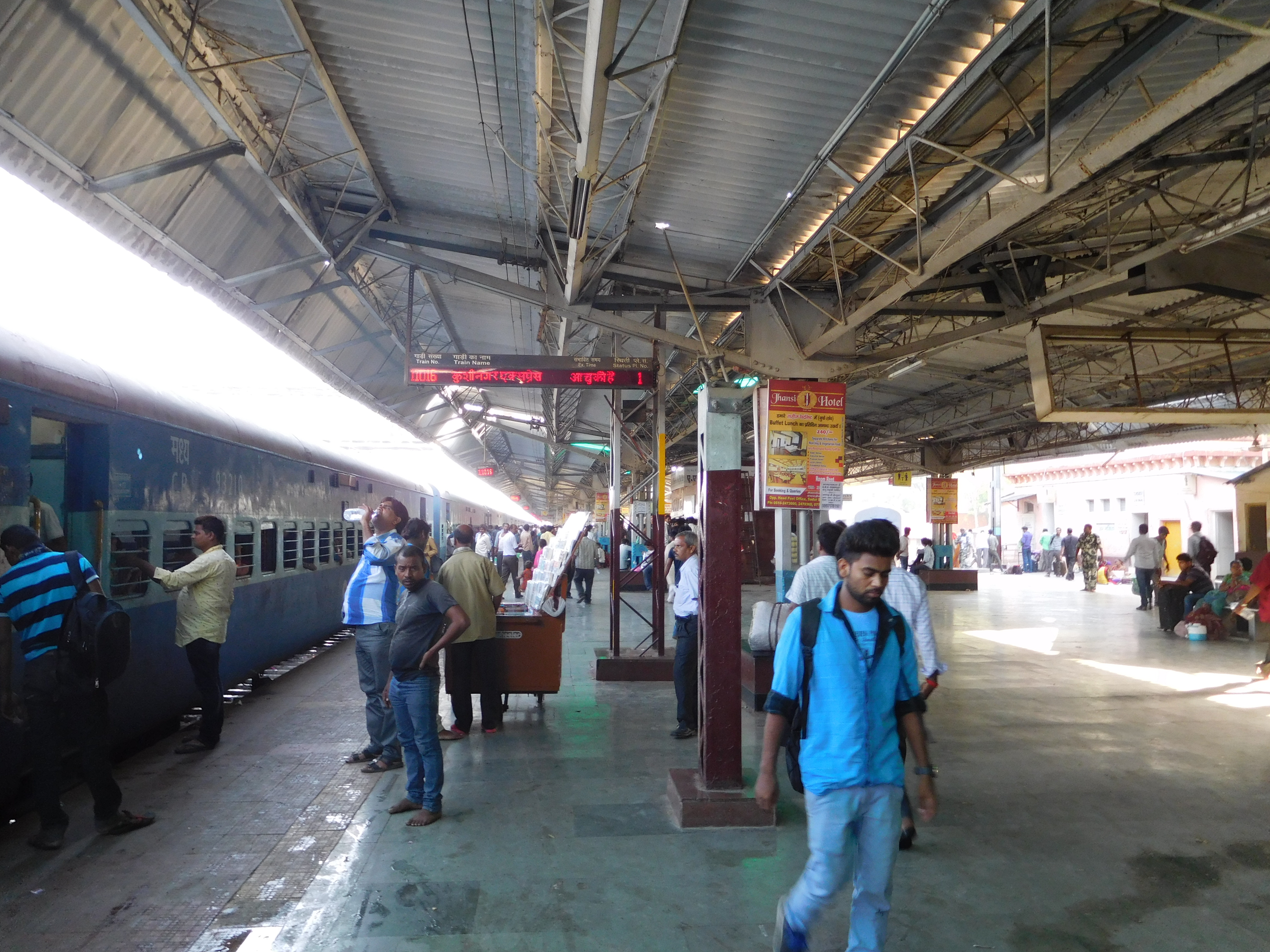 Plateform-Railway Station Jhansi,Uttar Pradesh,India